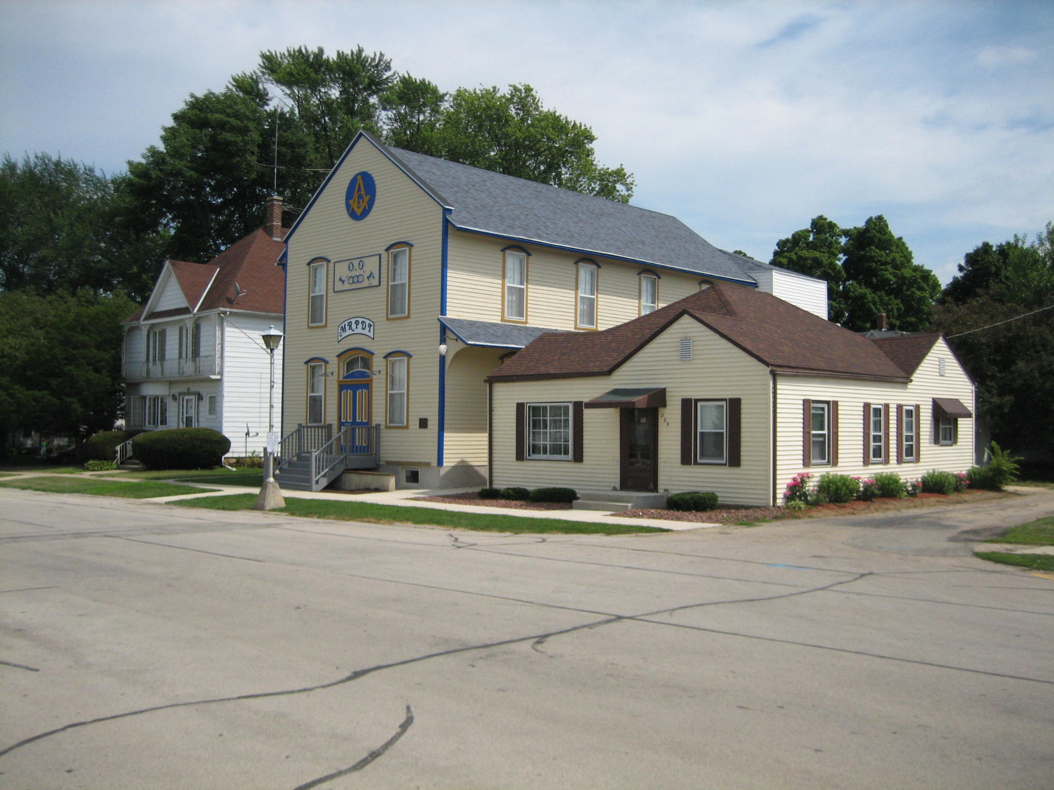 AF and AM Lodge 687, Orangeville, Illinois, USA. U.S. National Register of Historic Places. a.k.a. Independent Order of Odd Fellows J.R. Scruggs Lodge 372 The building is also the home of the M.R.P.D.T. (Mighty Richmond Players Dinner Theatre).